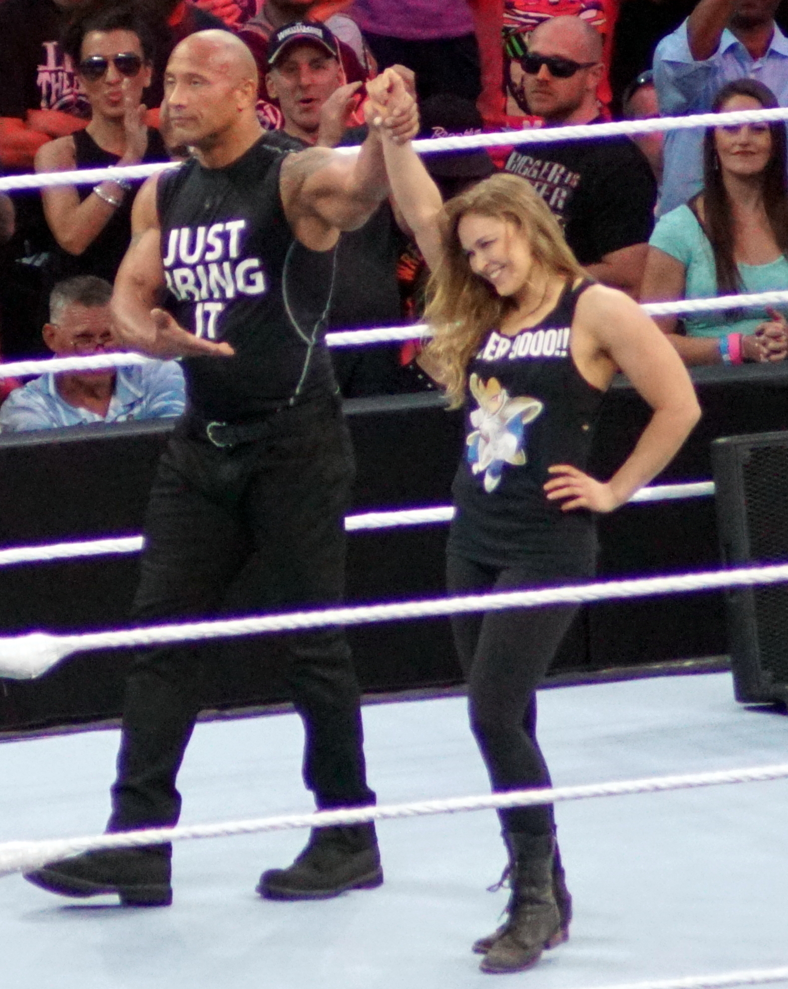 The Rock and UFC champ Ronda Rousey in the ring at WrestleMania 31 in March 2015. Cropped from original.